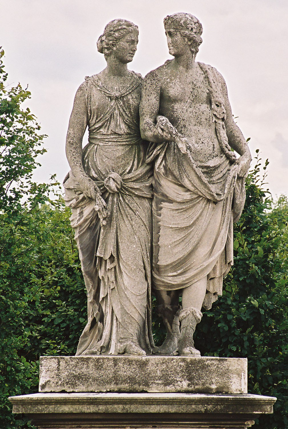 Vienna, Schönbrunn gardens, statues Ceres and Bacchus by Joachim Günther